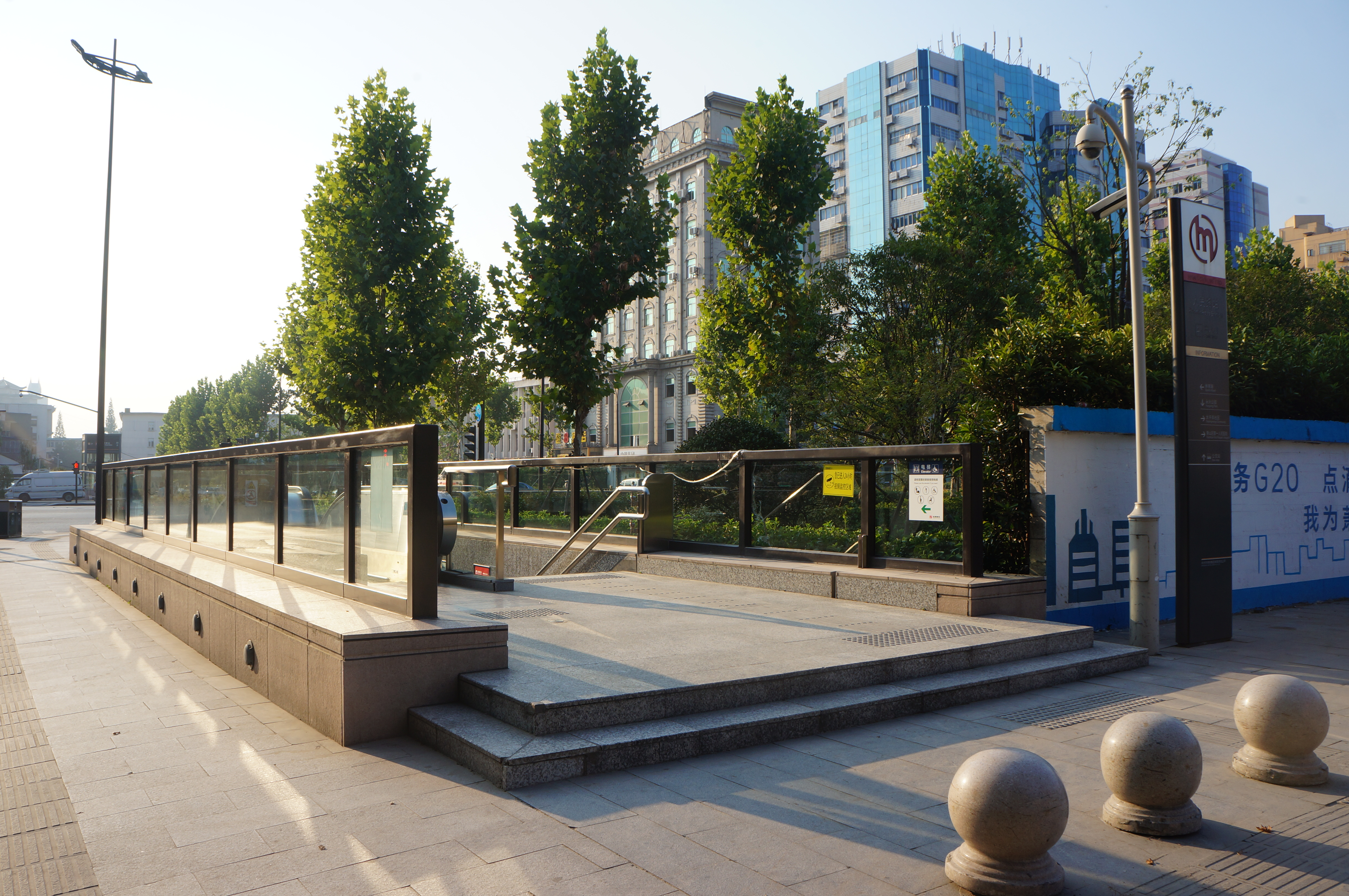 201607 Exit A2 of Renmin Road Station